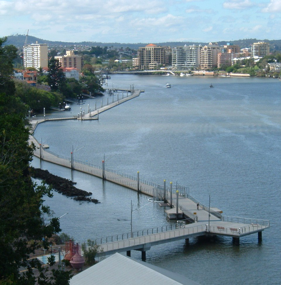 Brisbane River Walk, looking from north to south. The walk is located on the western side of the New Farm Peninsula in Brisbane. The suburb of Kangaroo Point is seen on the western (right) side of the river. Photo taken by User:Adz on 8 November 2005